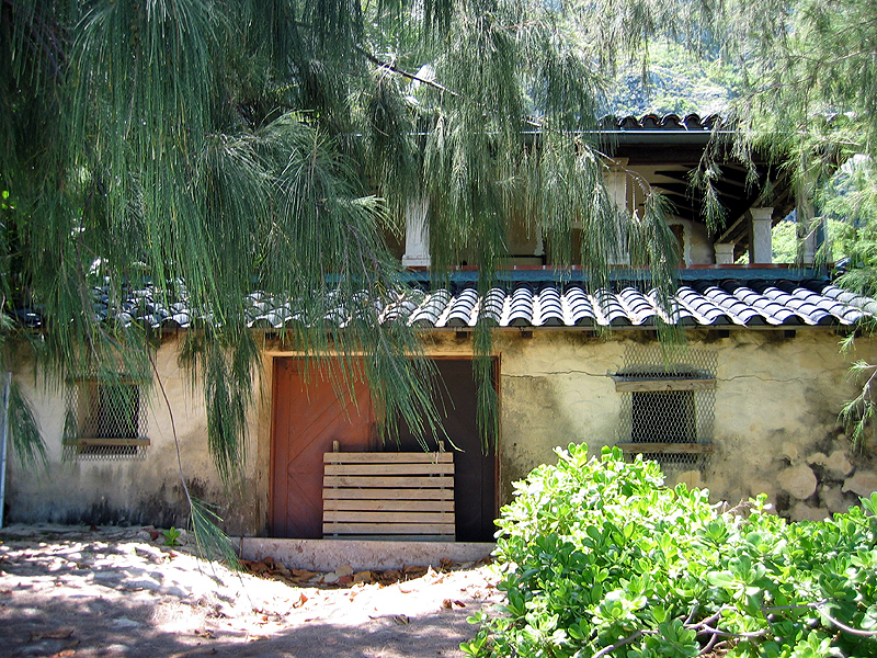 House used for images in Magnum PI, during a point in 2007 after the owner died.